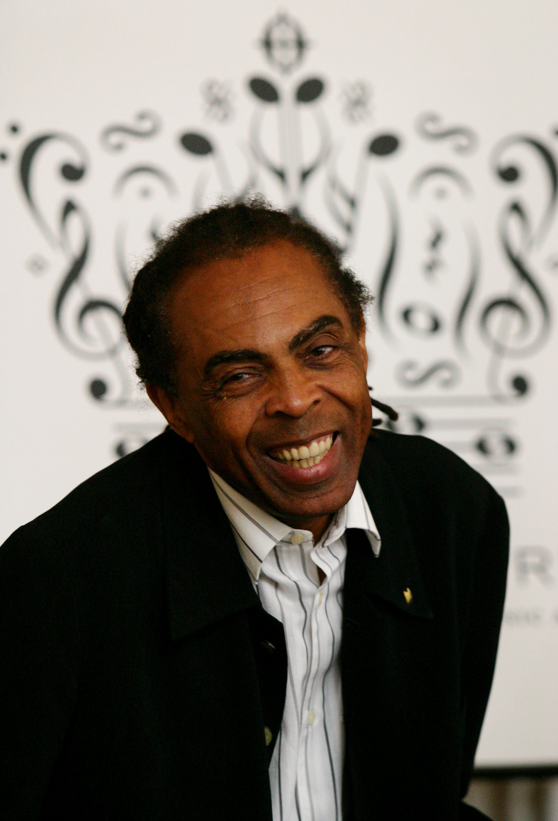 2005 Polar Music Prize winner Gilberto Gil at a pre-ceremony reception.